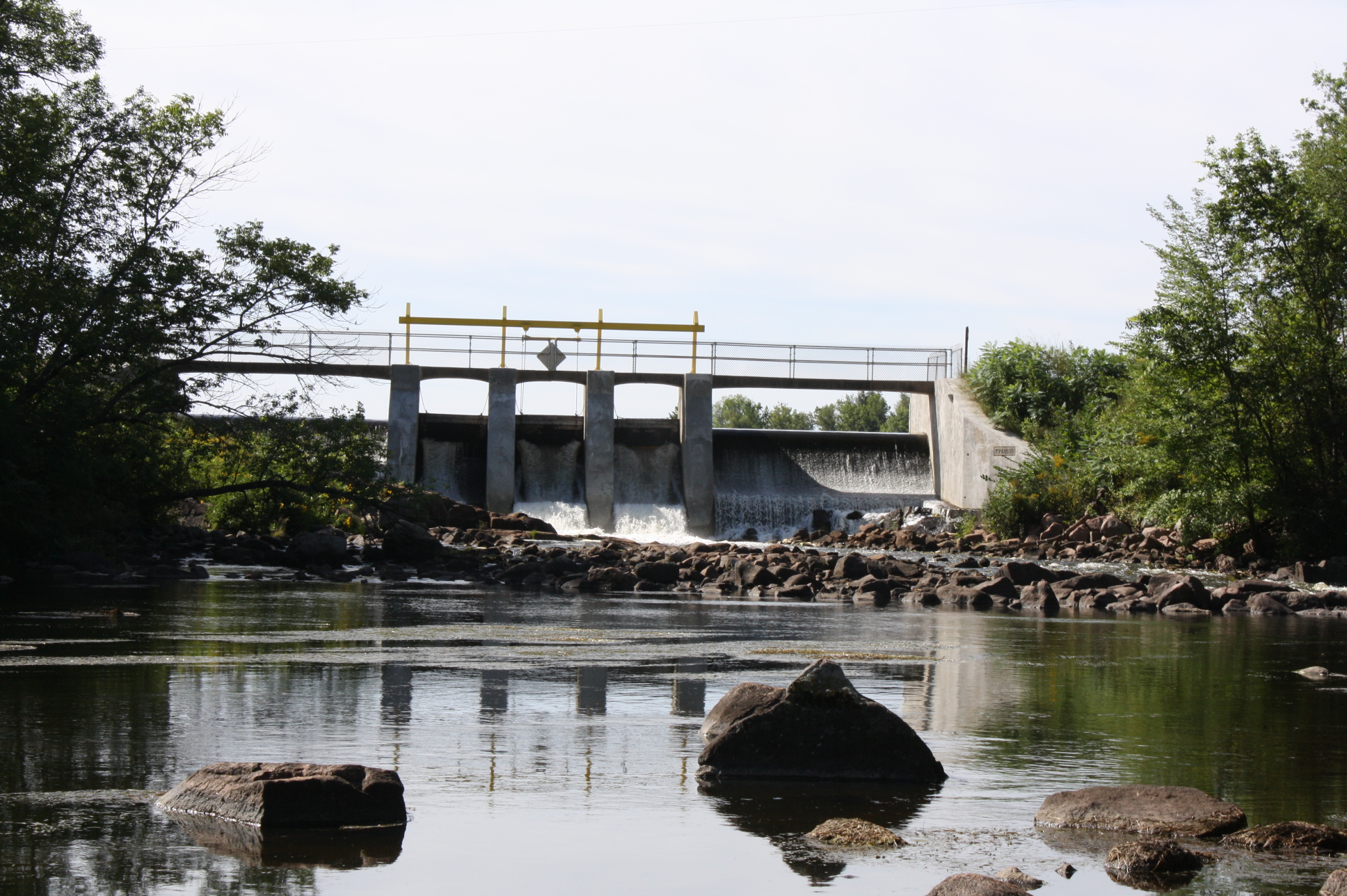 The downstream portion of the Chute Pond Dam near Mountain (community), Wisconsin.